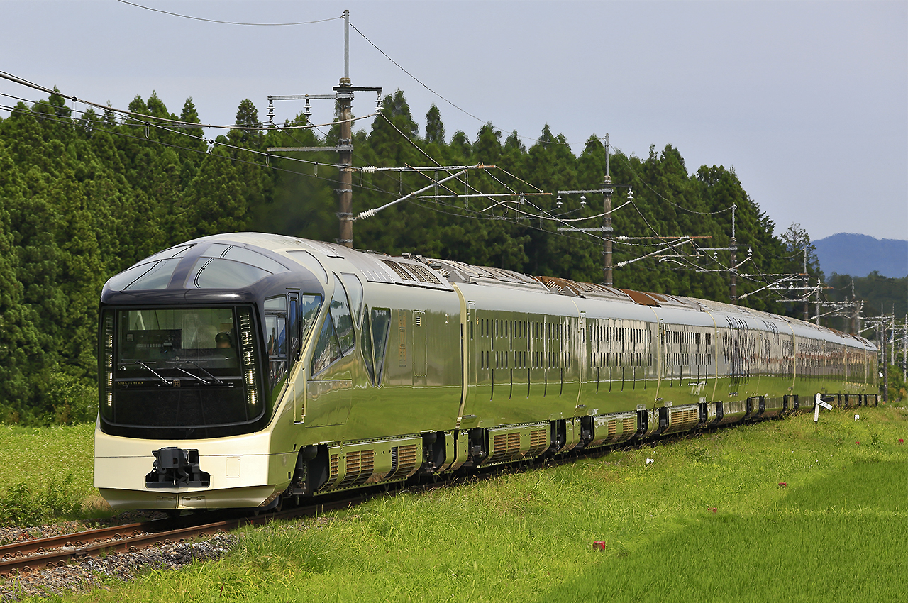 The JR East E001 series Train Suite Shiki-shima EDMU on the Nikko Line